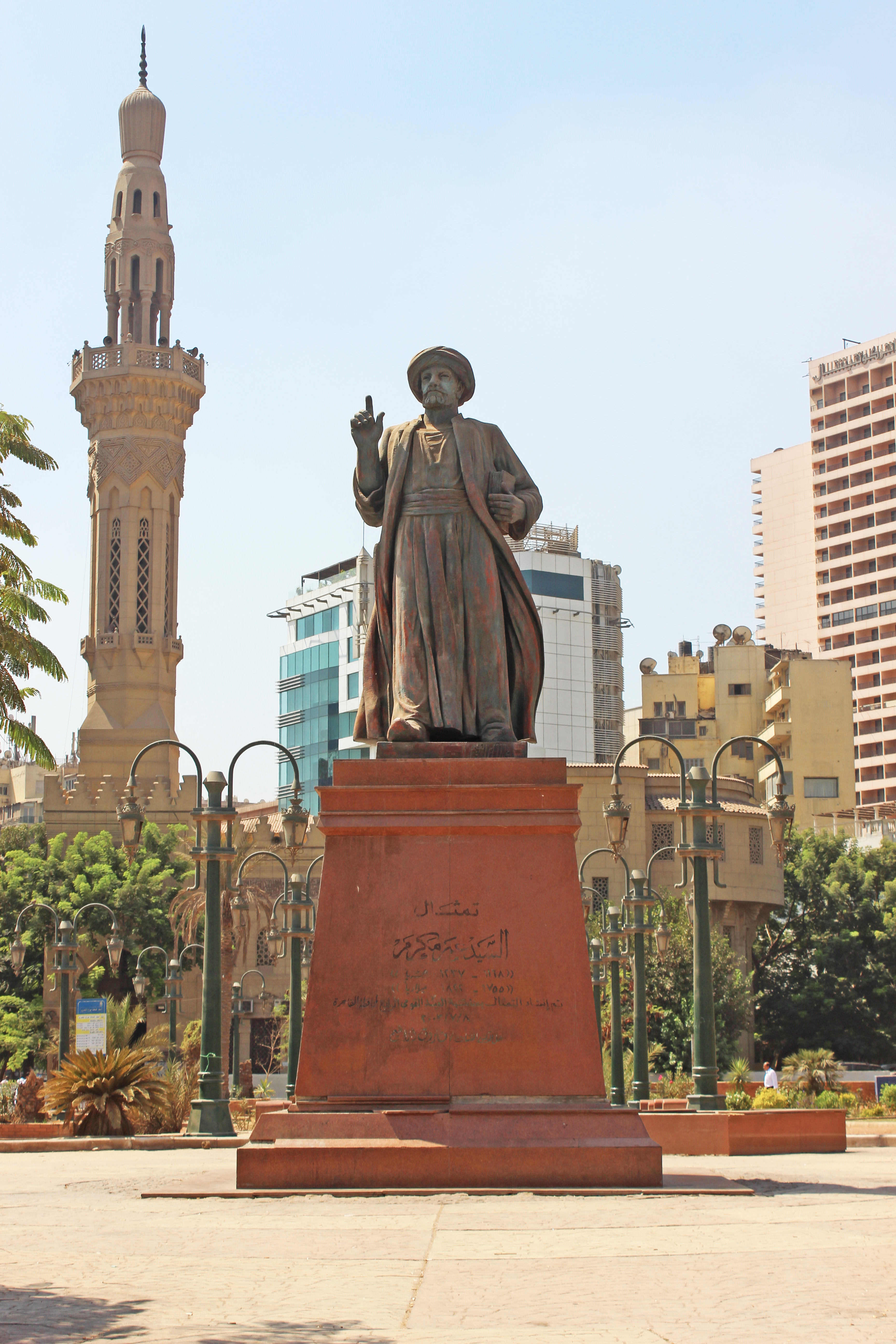 Omar Makram statue